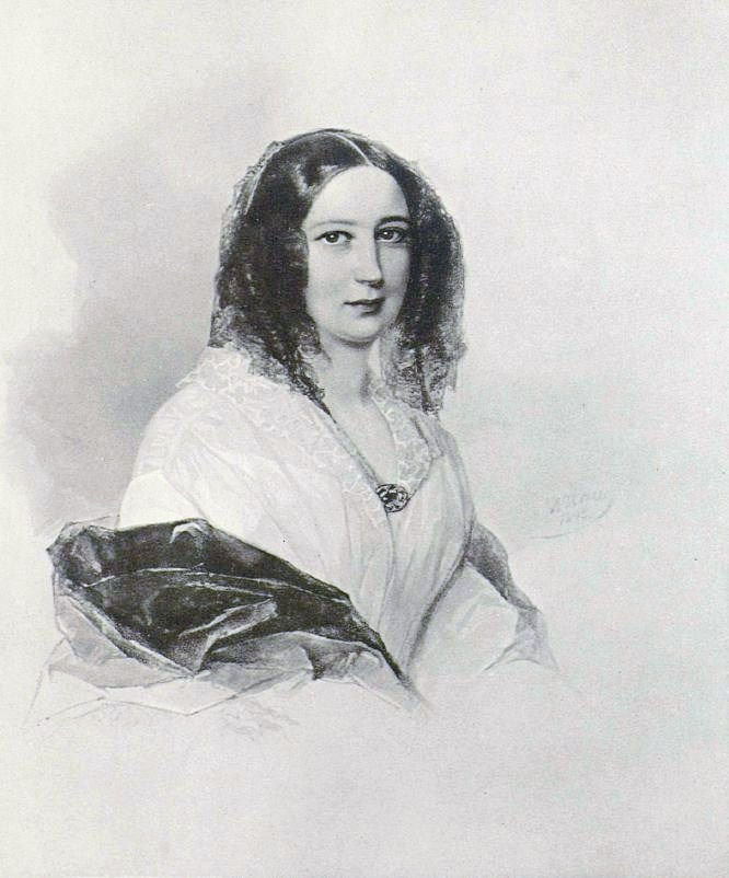 Elizaveta Petrovna Potemkina